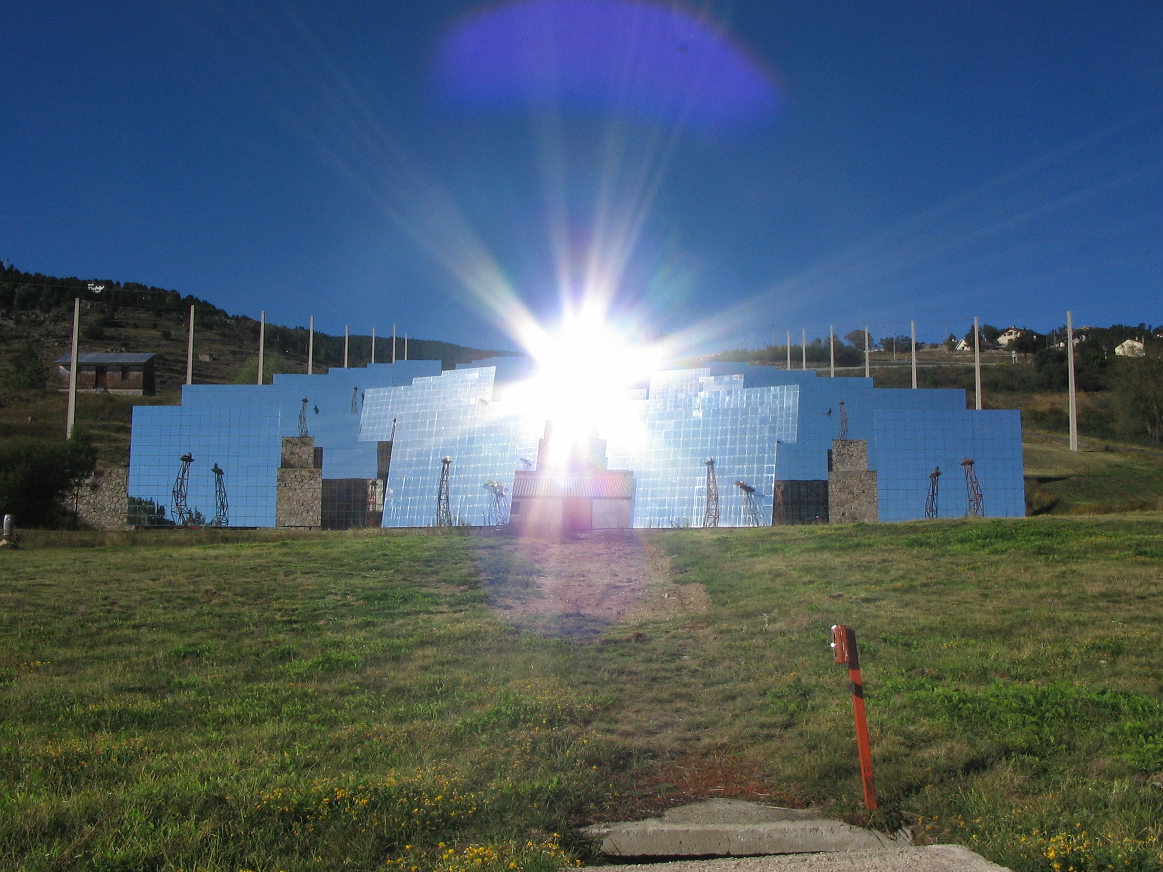 Centre du Four Solaire Félix Trombe, Odeillo, France.